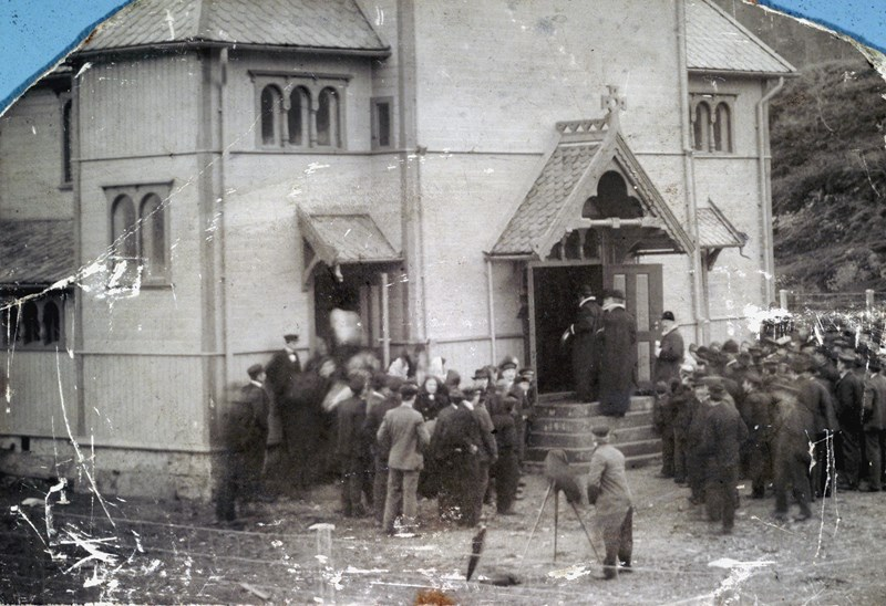 Dedication of Stemshaug chuch in 1908. The photographer Hans Ormset can be seen with his camera. The priests and congretation are on their way into the church.